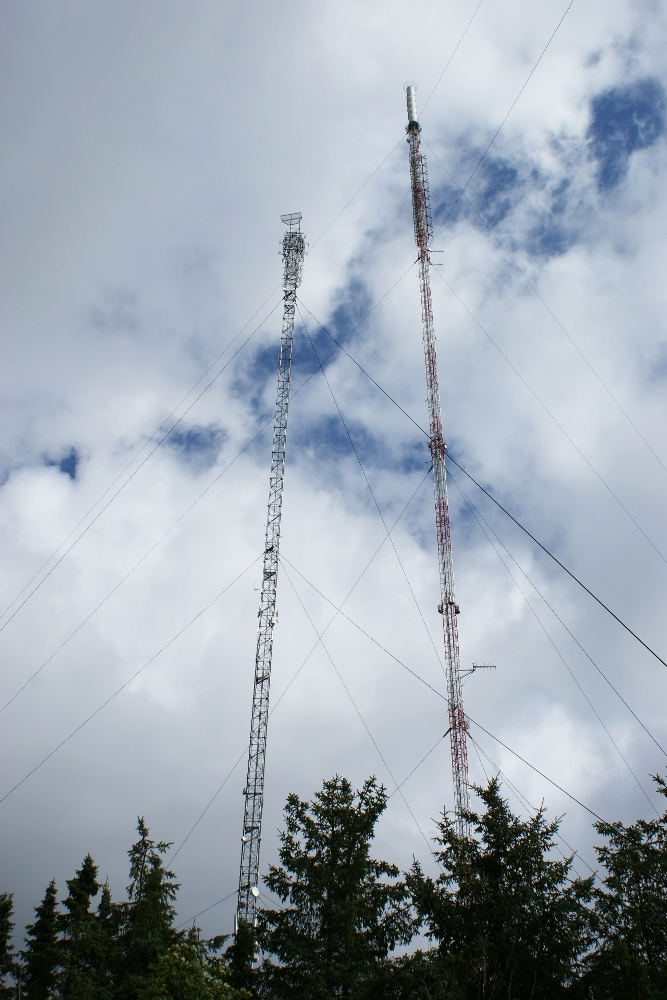 Frejlevsenderen, antennas for TV and other electronic transmissions, Frejlev, Aalborg kommune, Nordjylland, Denmark